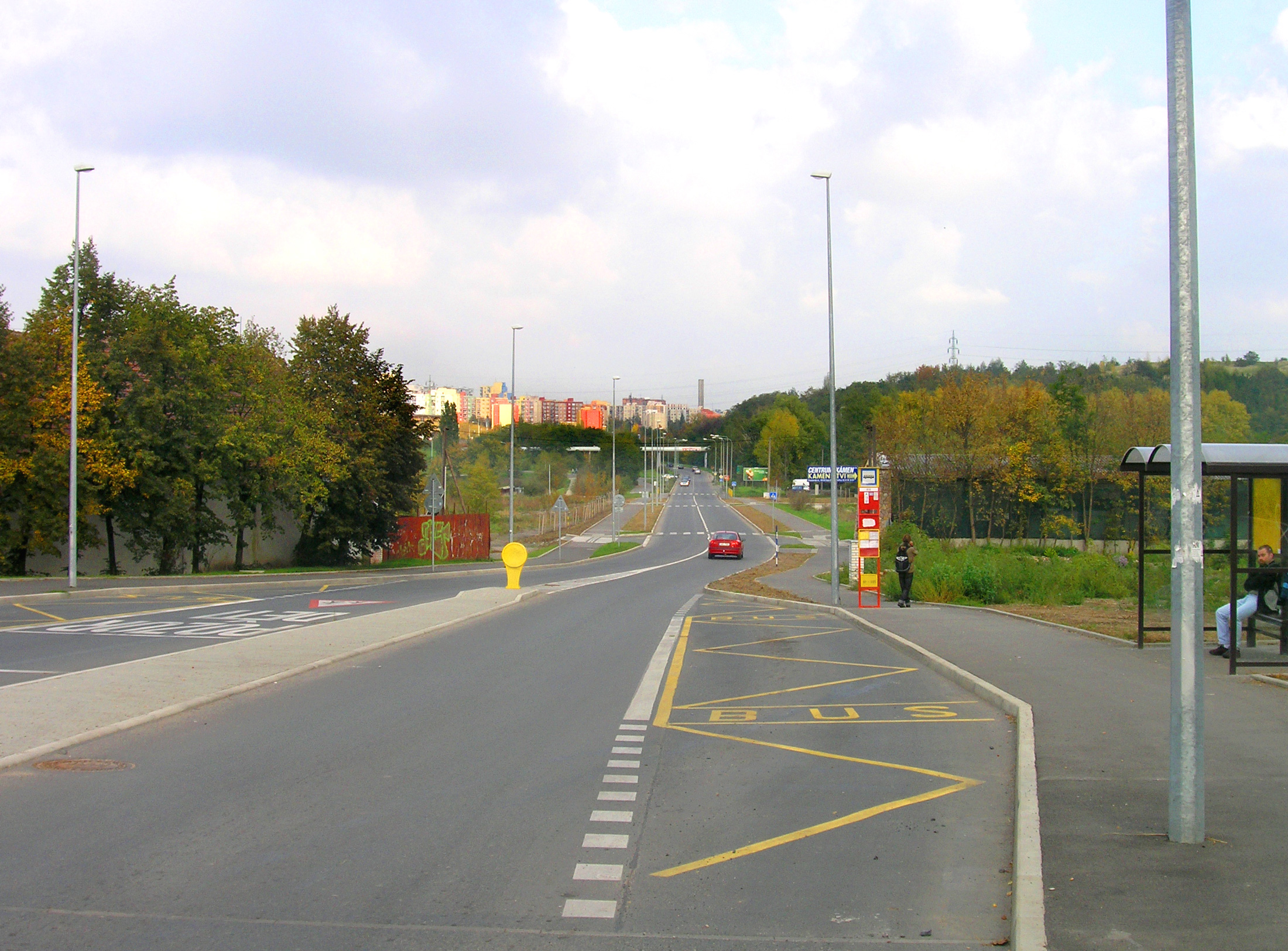 Broumarská street in Kyje, Prague